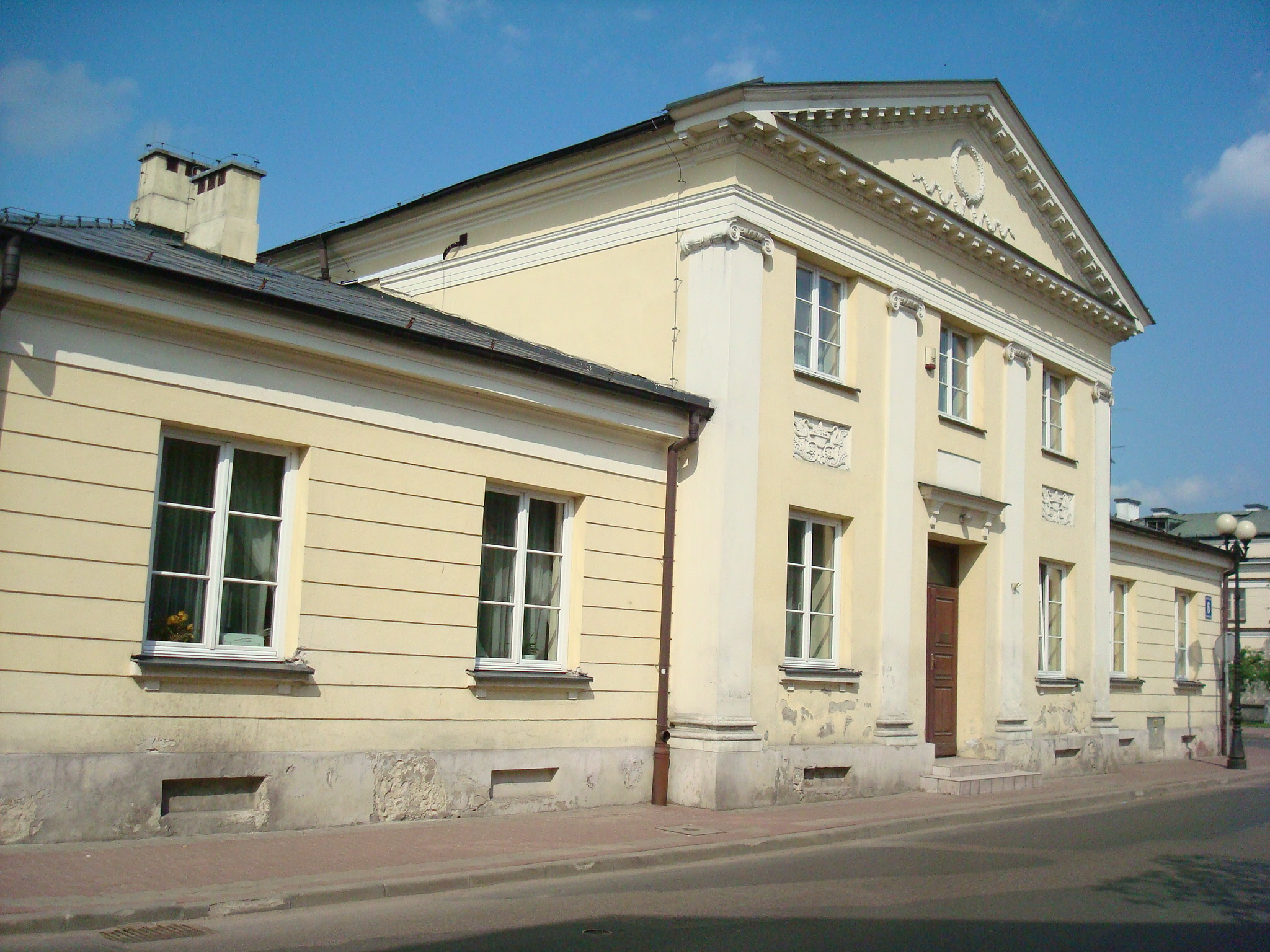 Classicism building of theater in Siedlce